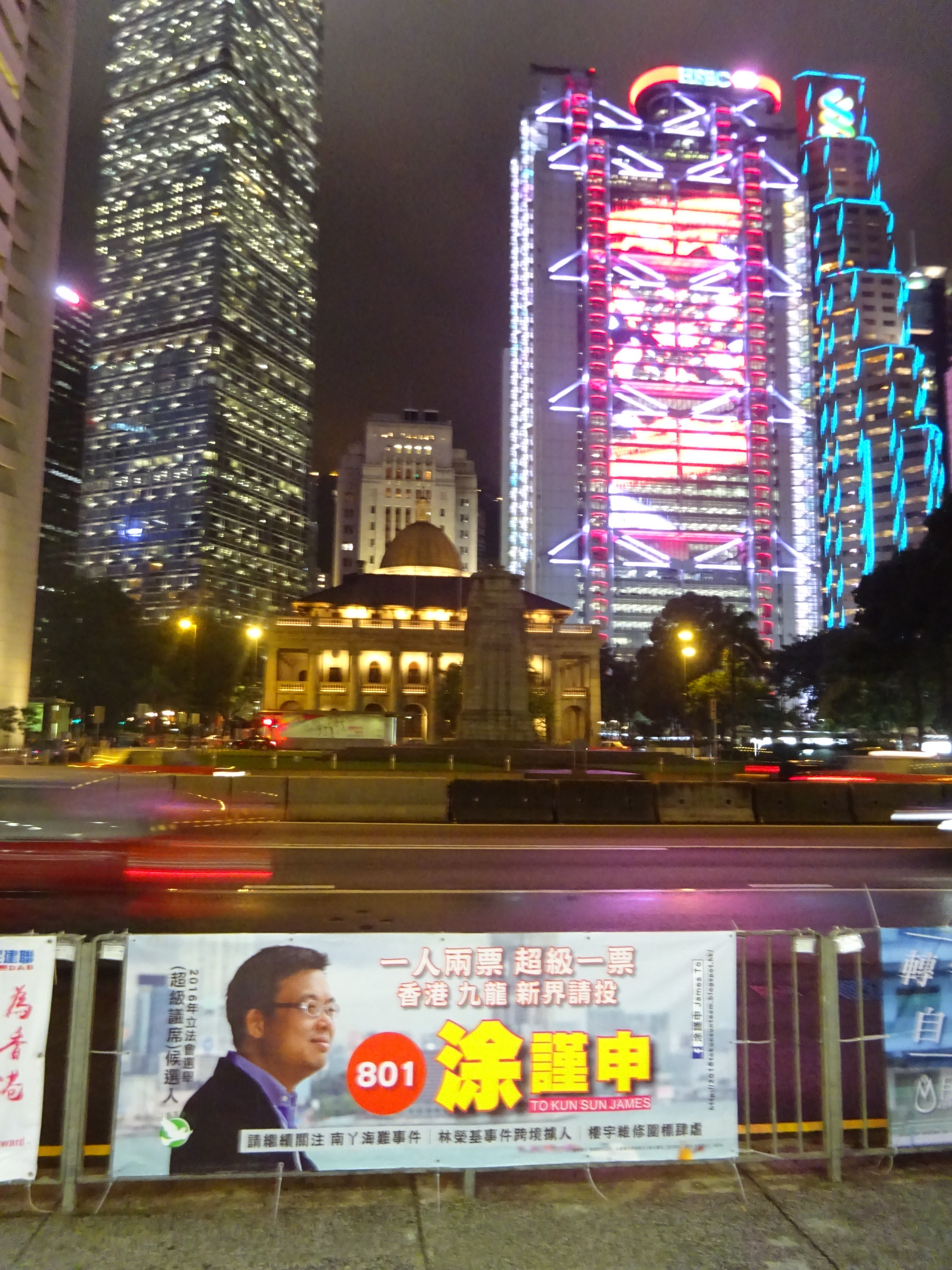 City Hall, night Connaught Road Central in August 2016 Hong Kong Legislative Election banner 涂謹申